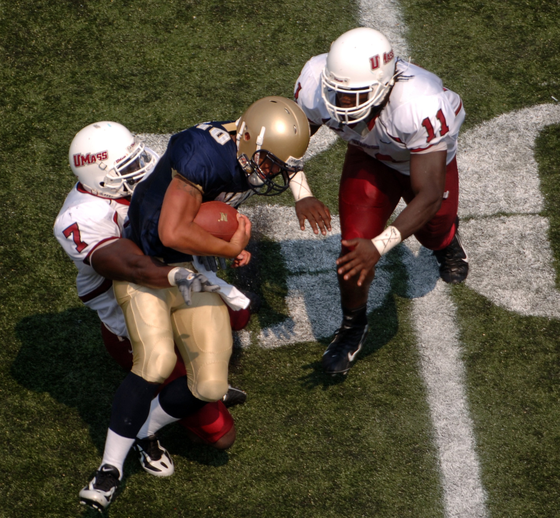 Navy Quarterback Kaipo-Noa Kaheaku-Enhada is tackled by Massachusetts defensive back James Ihedigbo, #7, and linebacker Charles Walker, #11. The Navy Midshipmen (2-0) triumphed over the UMass Minutemen (1-1) 21-20.